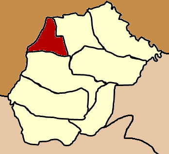 Locator map of Mae Sai with Wiang Phang Kham highlighted.